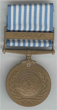 United Nations Korea Medal